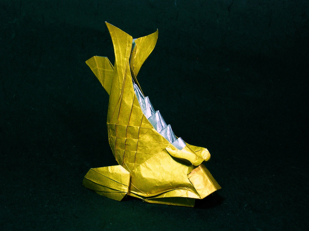 Designed by Fumiaki Kawahata Folded from tissue foil made with white glue